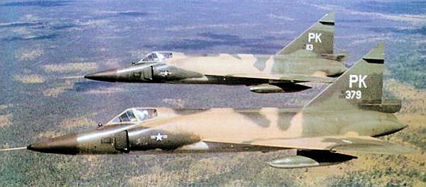 USAF Convair F-102 from Don Muang Royal Thai Air Force Base flying over Thailand in Vietnam War camouflage motif